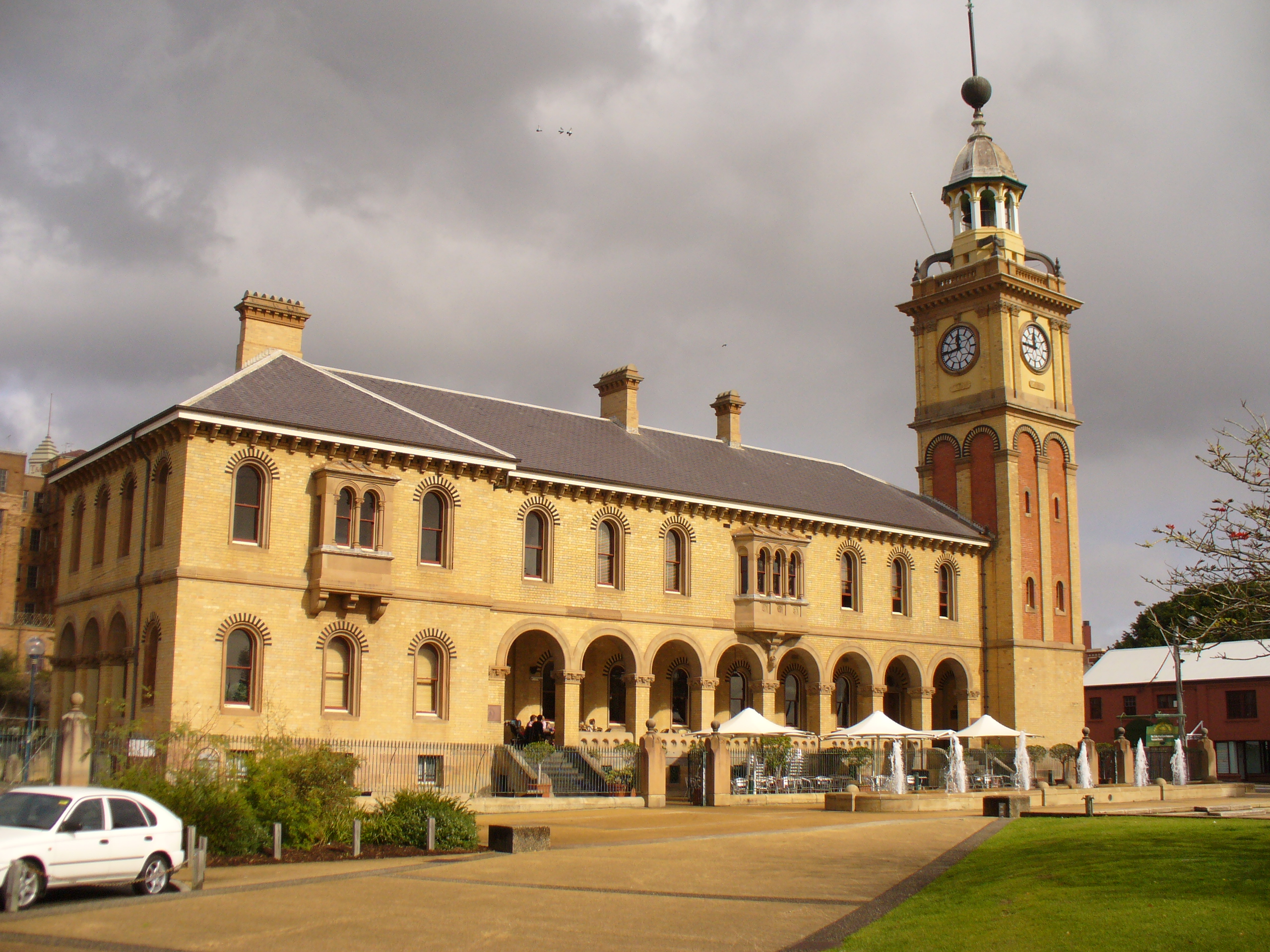 Customs House, Newcastle, New South Wales, Australia